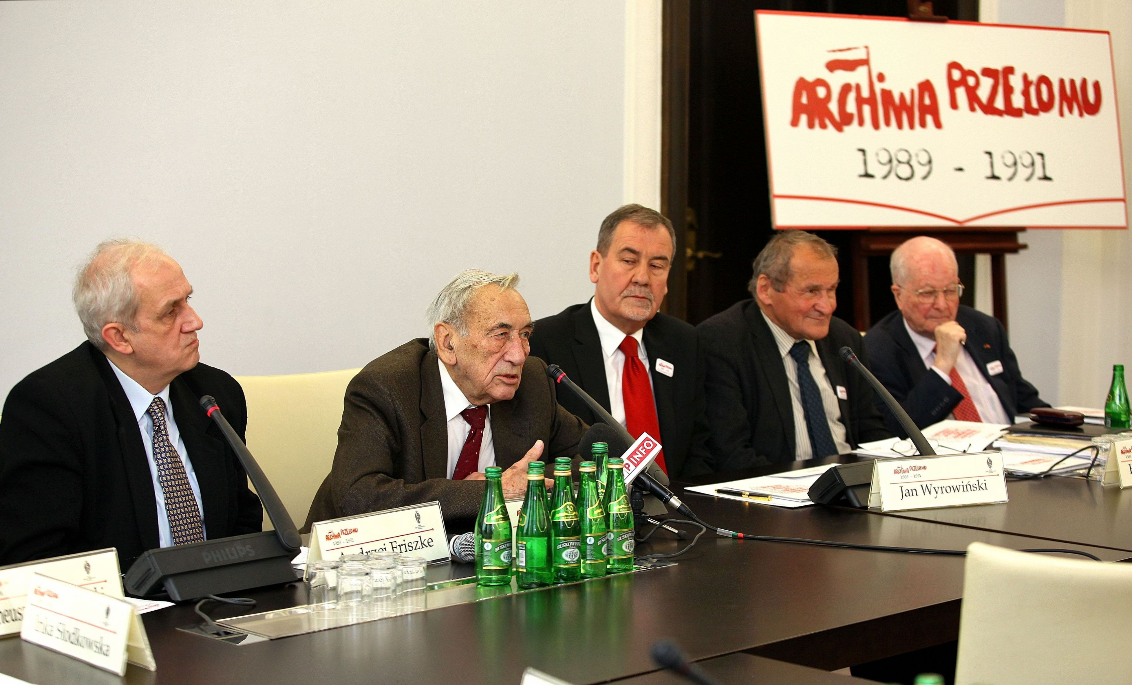 Andrzej Friszke, Tadeusz Mazowiecki, Jan Wyrowiński, Henryk Wujec and Jerzy Regulski at the "Archives of 1989-1991 breakthorough" conference in the Polish Senate